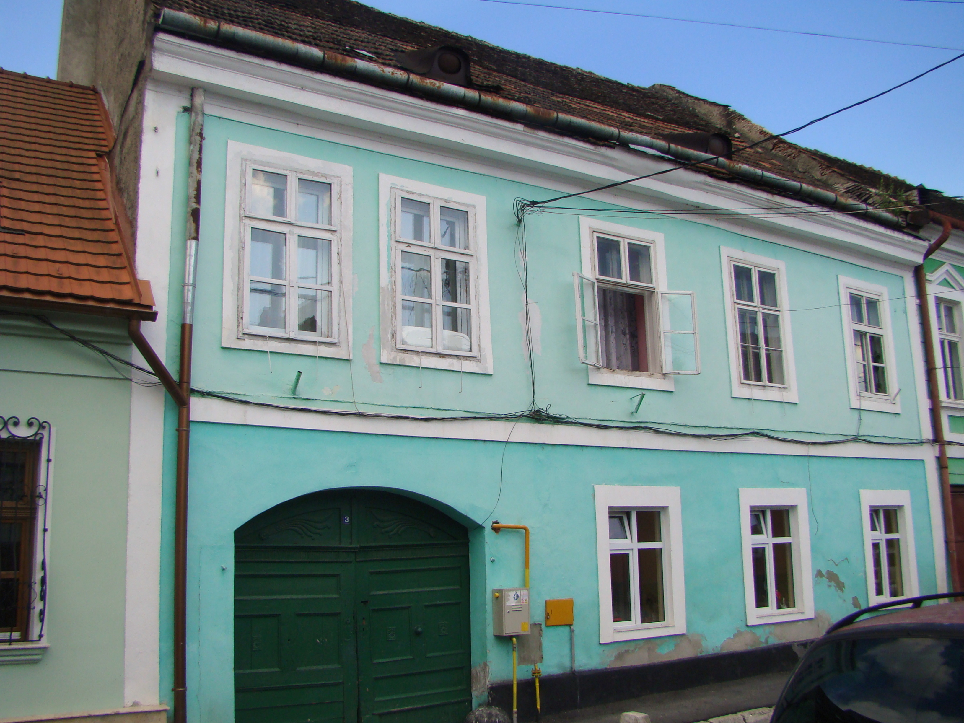 House, historic monument, in Bistrița, Constantin Dobrogeanu-Gherea street 3